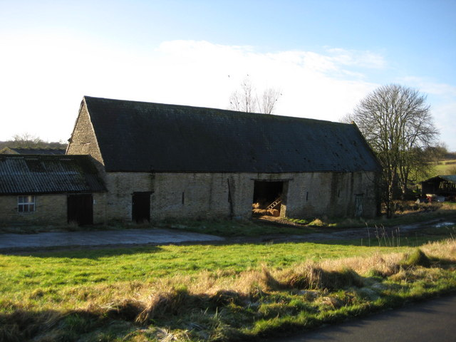 18th-century barn at Priory Farm, Helmdon, Northamptonshire